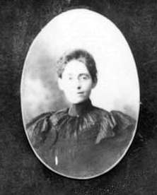 Portrait of Ida Isabella Poteat, cropped and color balanced from